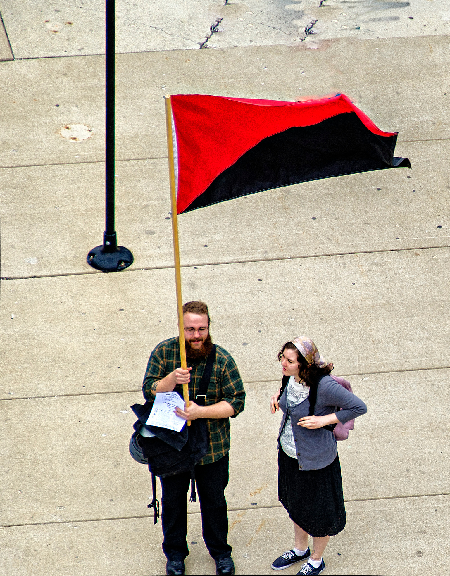 Flag waver, May Day demonstration and Occupy Chicago march